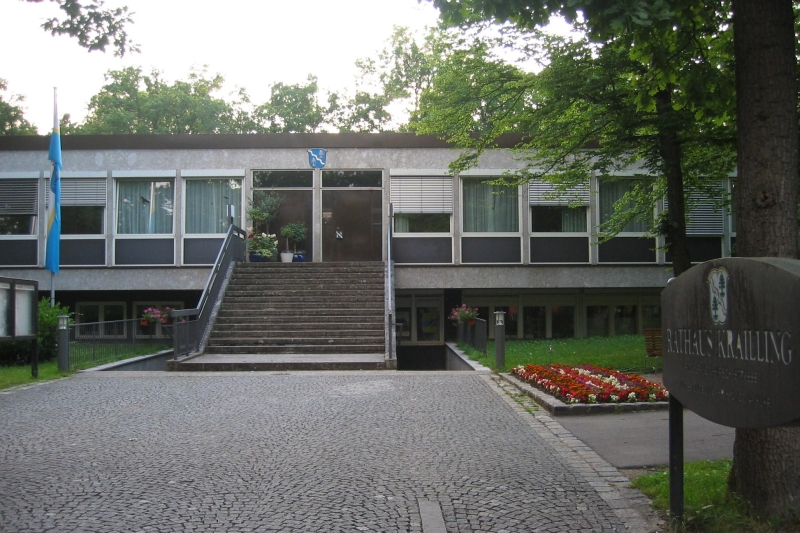 Krailling town hall